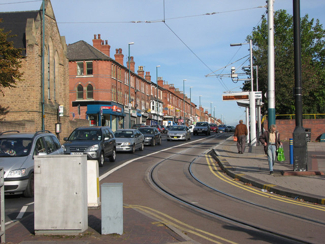 Radford Road, Hyson Green The Hyson Green tram stop is opposite St Paul's Church. The traffic is waiting to cross Gregory Boulevard.